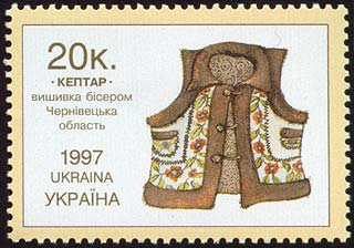 Stamp of Ukraine